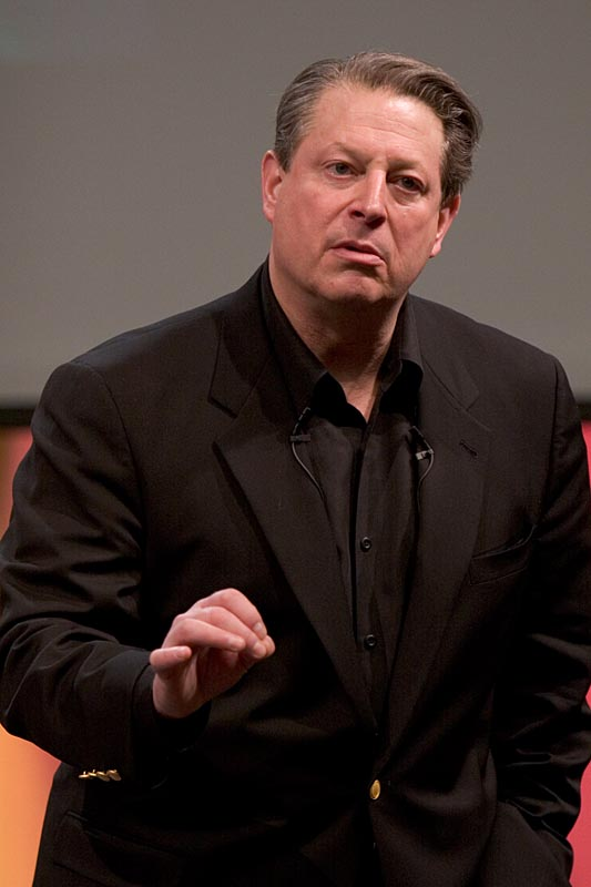 Al gore giving his global warming talk in Mountain View, CA on 7 April 2006. This "slide show" (as he calls it) formed the basis of the 2006 documentary, An Inconvenient Truth. Photo copyrighted by Brett Wilson (brettw AT gmail DOT com).